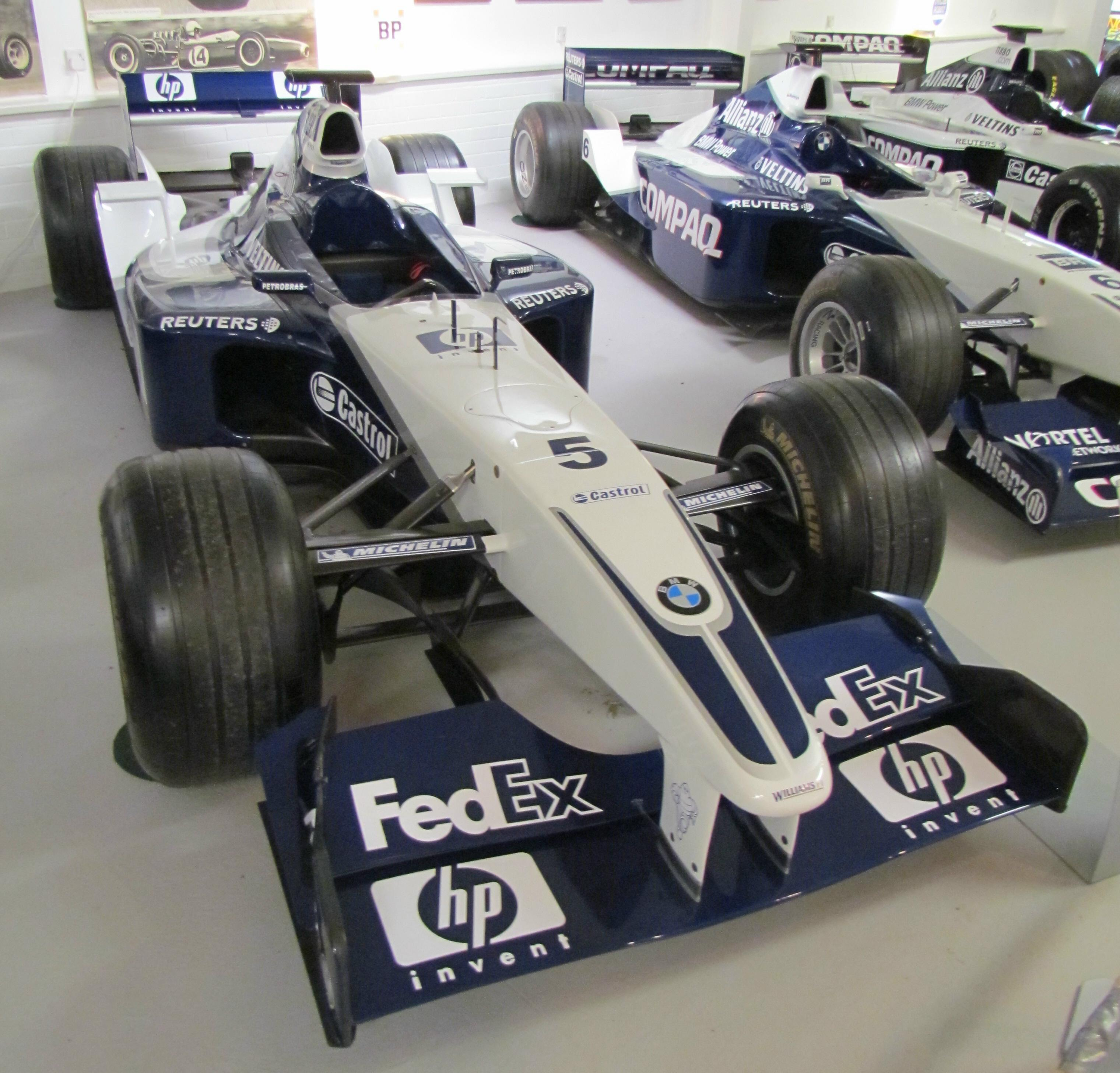 Ralf Schumacher's 2002 Williams FW24